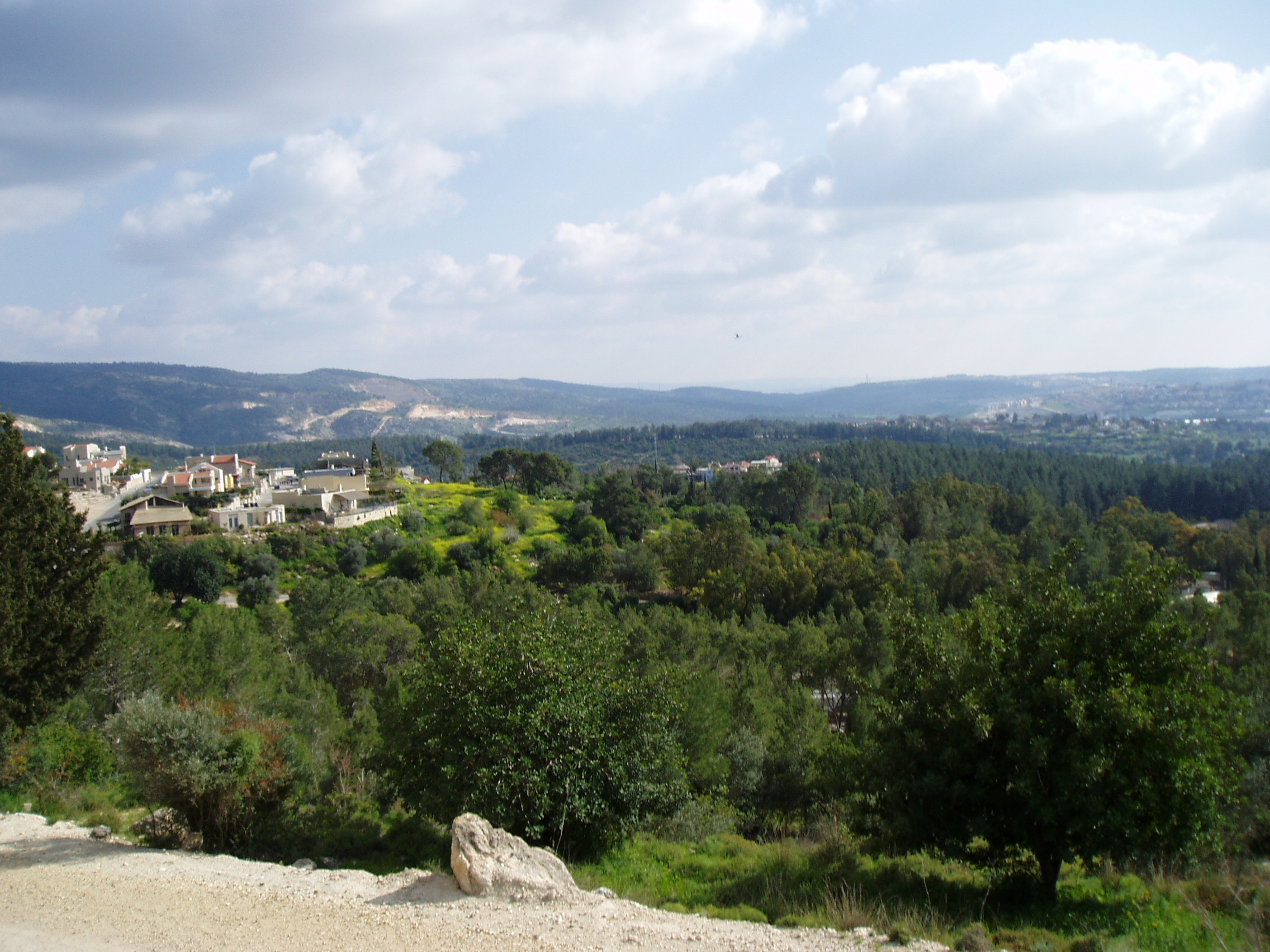 Photograph taken March 18, 2006, in Eshtaol Forest (Hebrew, יער אשתאול), Rabin Park (פארק רבין), Israel, a Jewish National Fund forest. Released into the public domain.